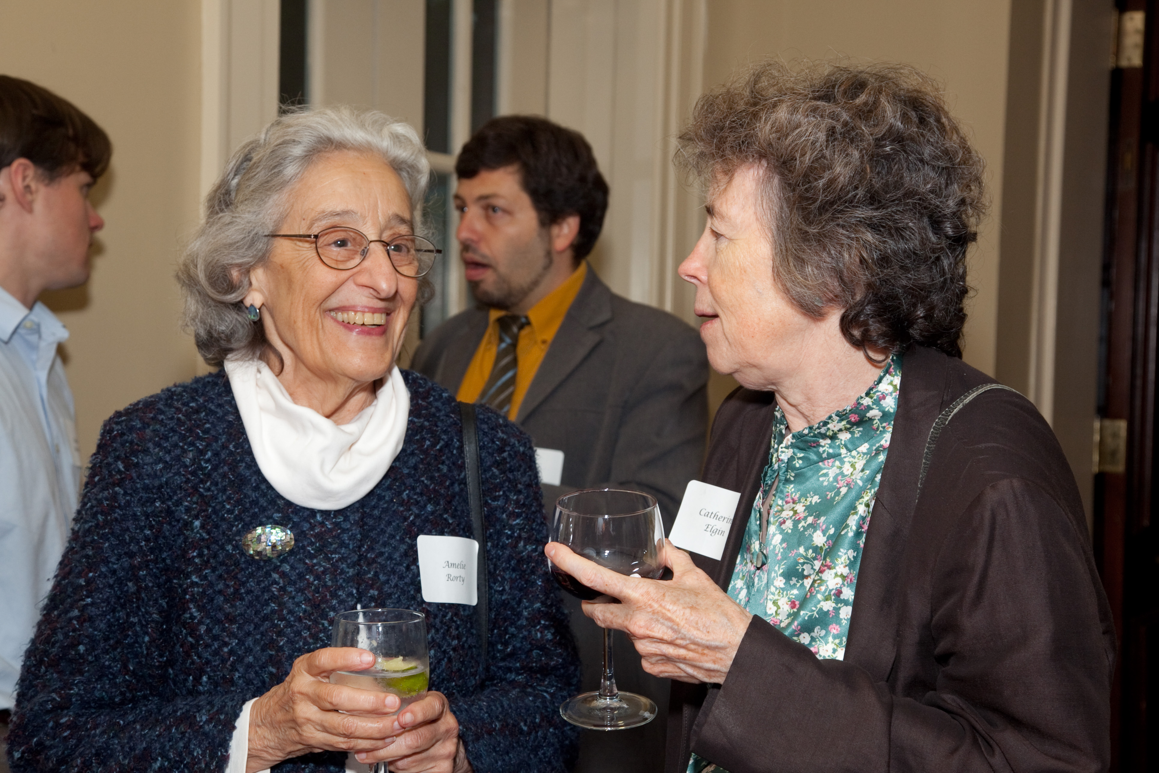 Catherine Elgin (right) at the Edmond J. Safra Center for Ethics